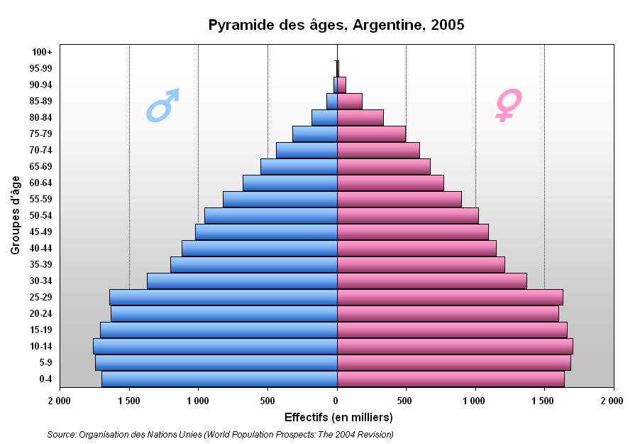 Argentina Population pyramid, 2005